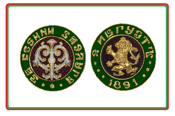 Medaillons of the cross of the Bulgarian Order of Military Merit, as conferred in peacetime until 1944. The side with the monogram is the front.